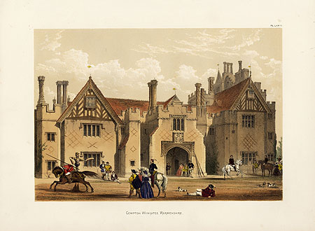 19th century print or a watercolour from Nash Mansions of England published in 1870. In public domain by virtue of age